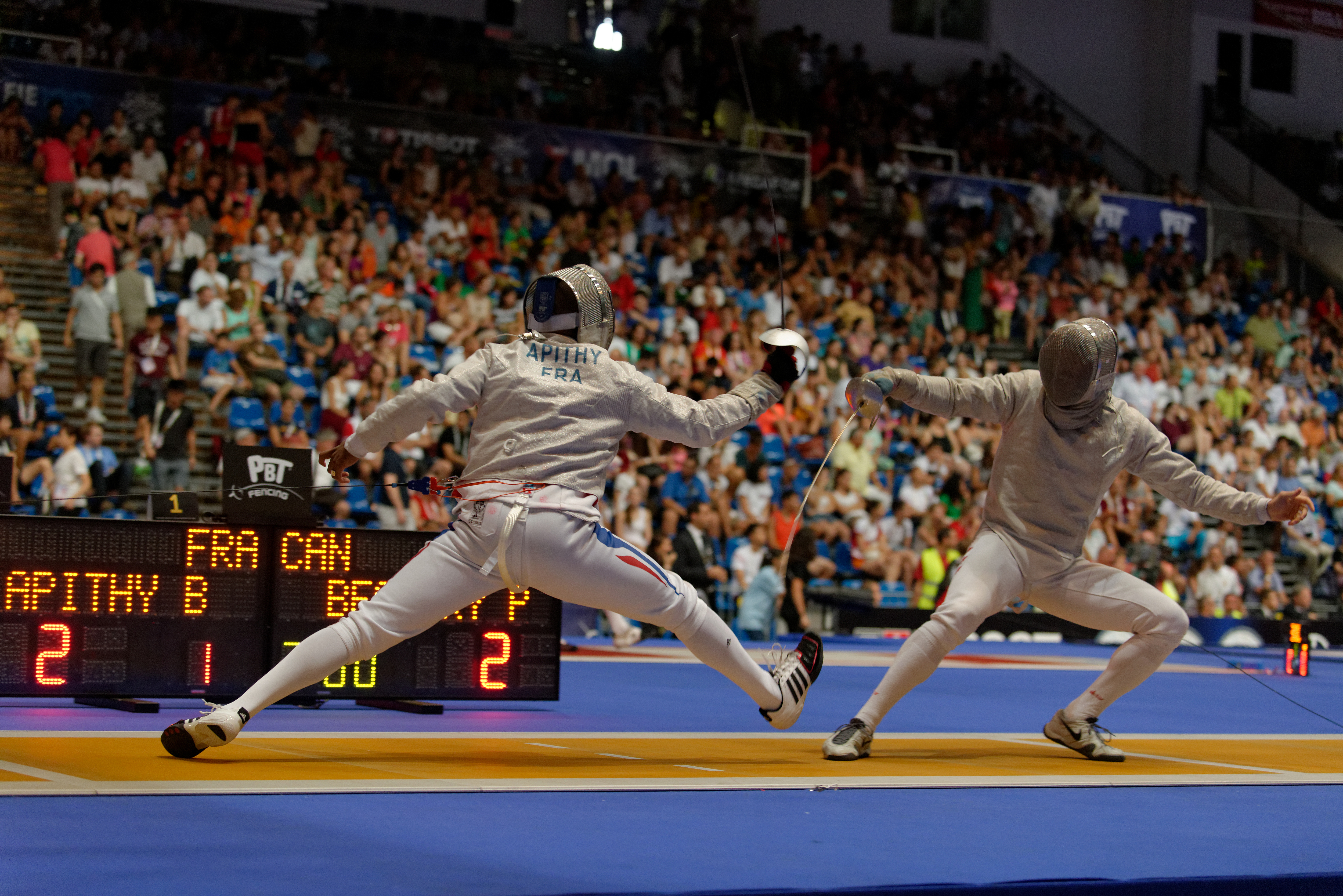 France's Boladé Apithy (L) fences against Philippe Beaudry of Canada (R) in the men's sabre round of 64 of the 2013 World Fencing Championships 2013 at Syma Hall in Budapest, 7 August 2013.